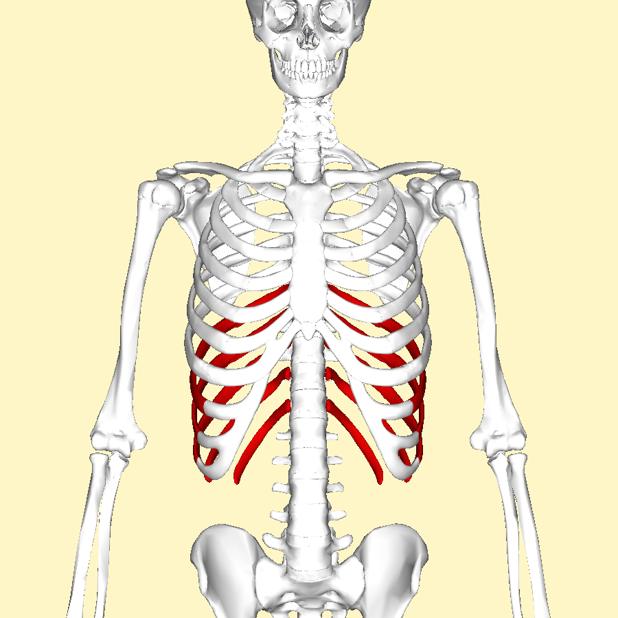 False ribs (shown in red).